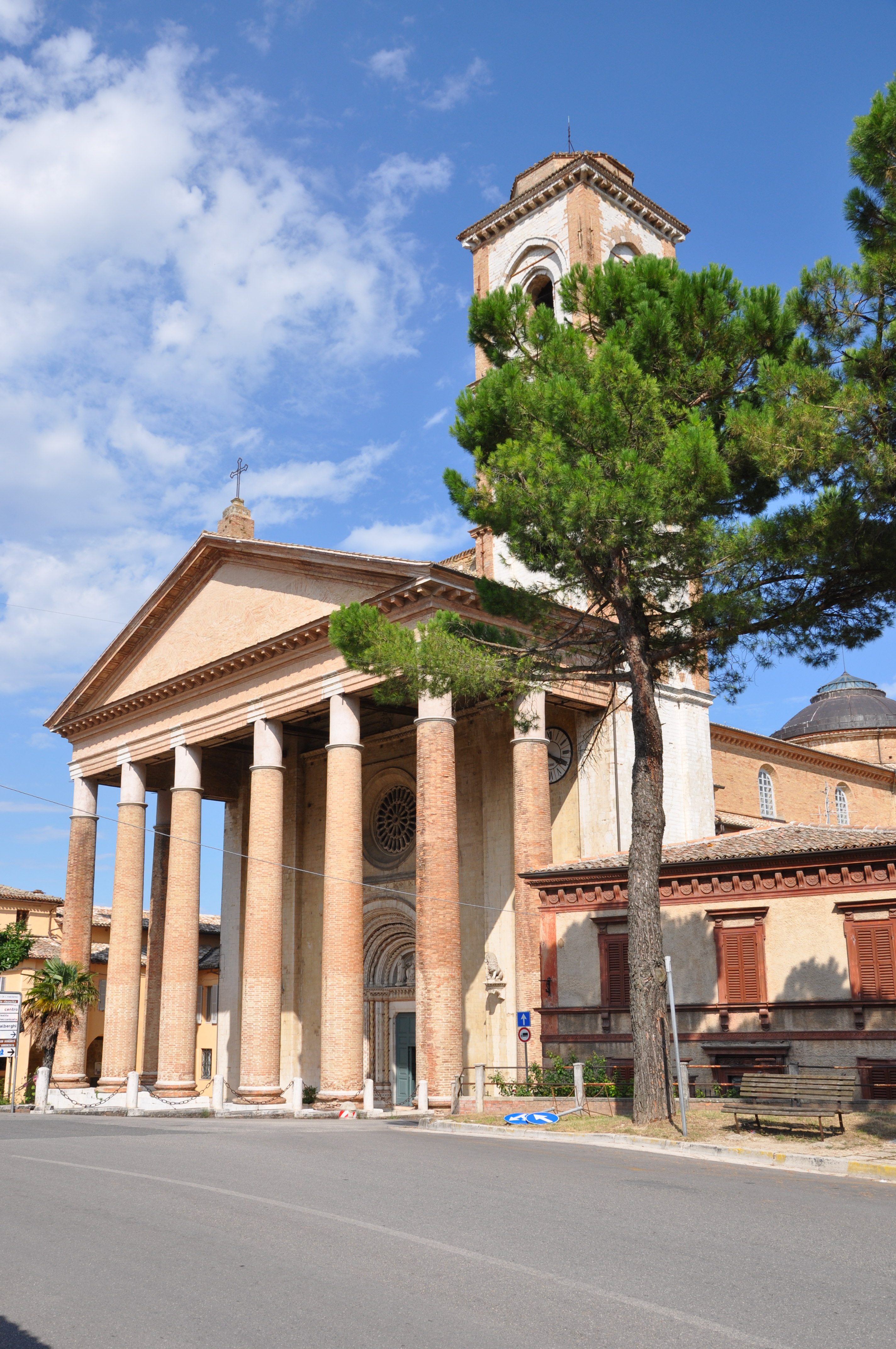 The Romanesque Basilica of San Venanzio — in the Marche region, eastern central Italy.